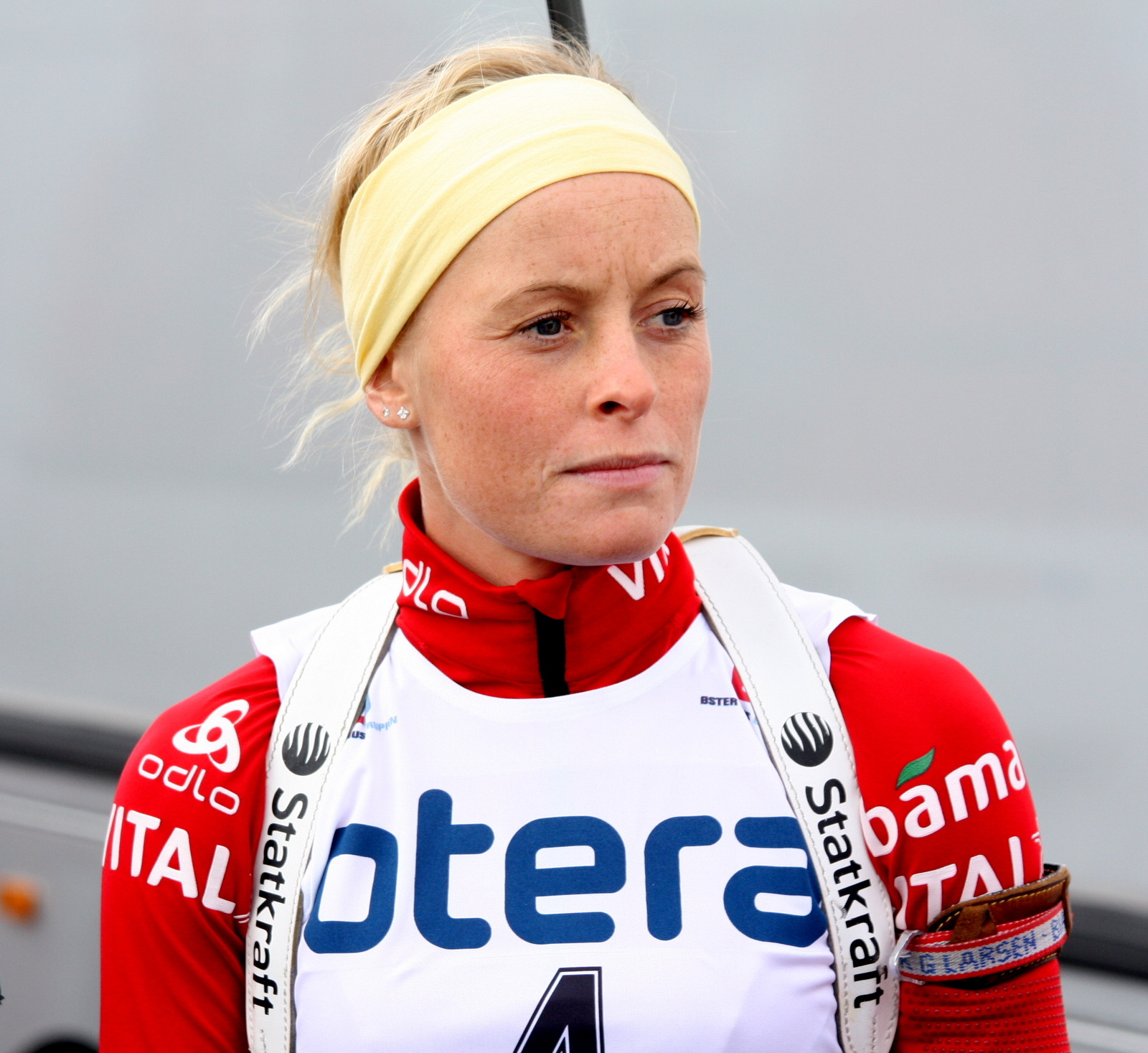 Anne Ingstadbjørg at the Blinkfestival in Sandnes 2009